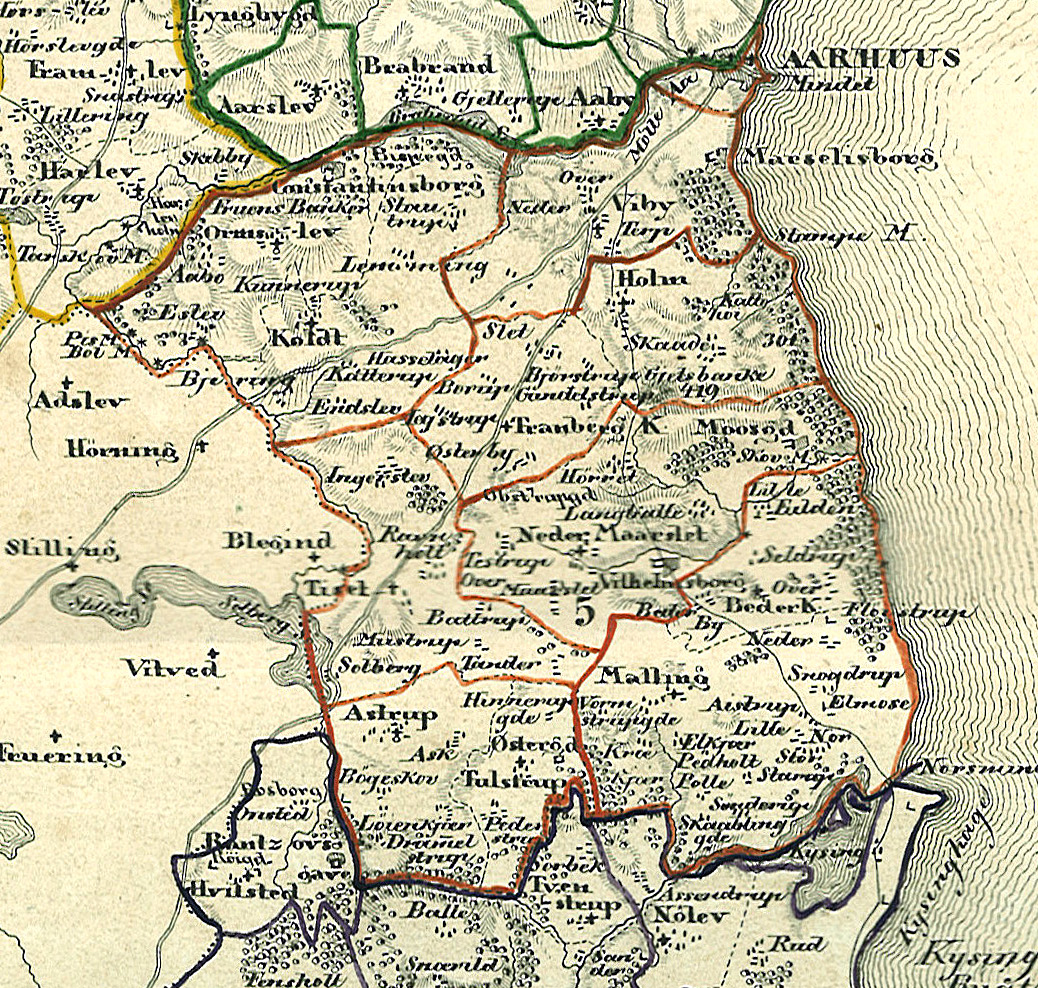 Ning Herred in Århus Amt 1826, Denmark.